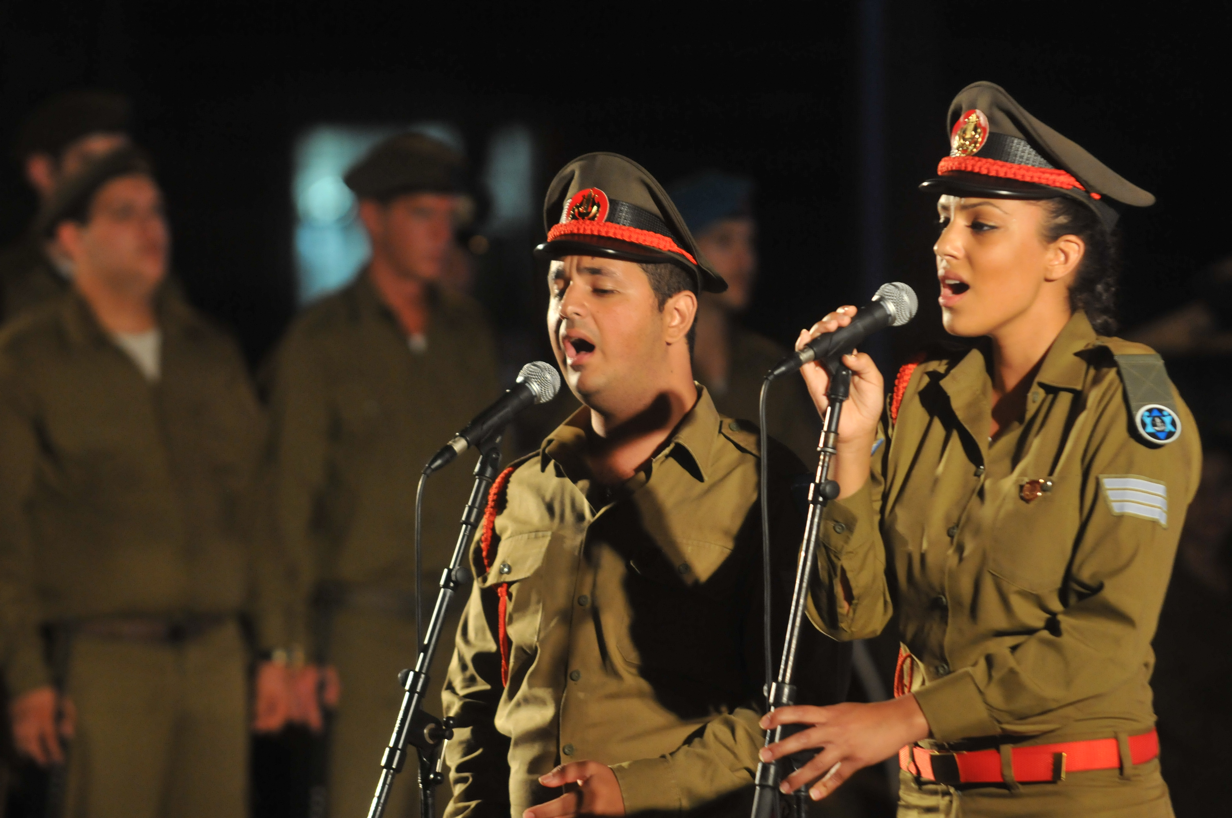 September 7, 2011 Members of the IDF military band perform at a memorial ceremony for fallen soldiers, which held non-combat roles. Photo by IDF Spokesperson Unit.